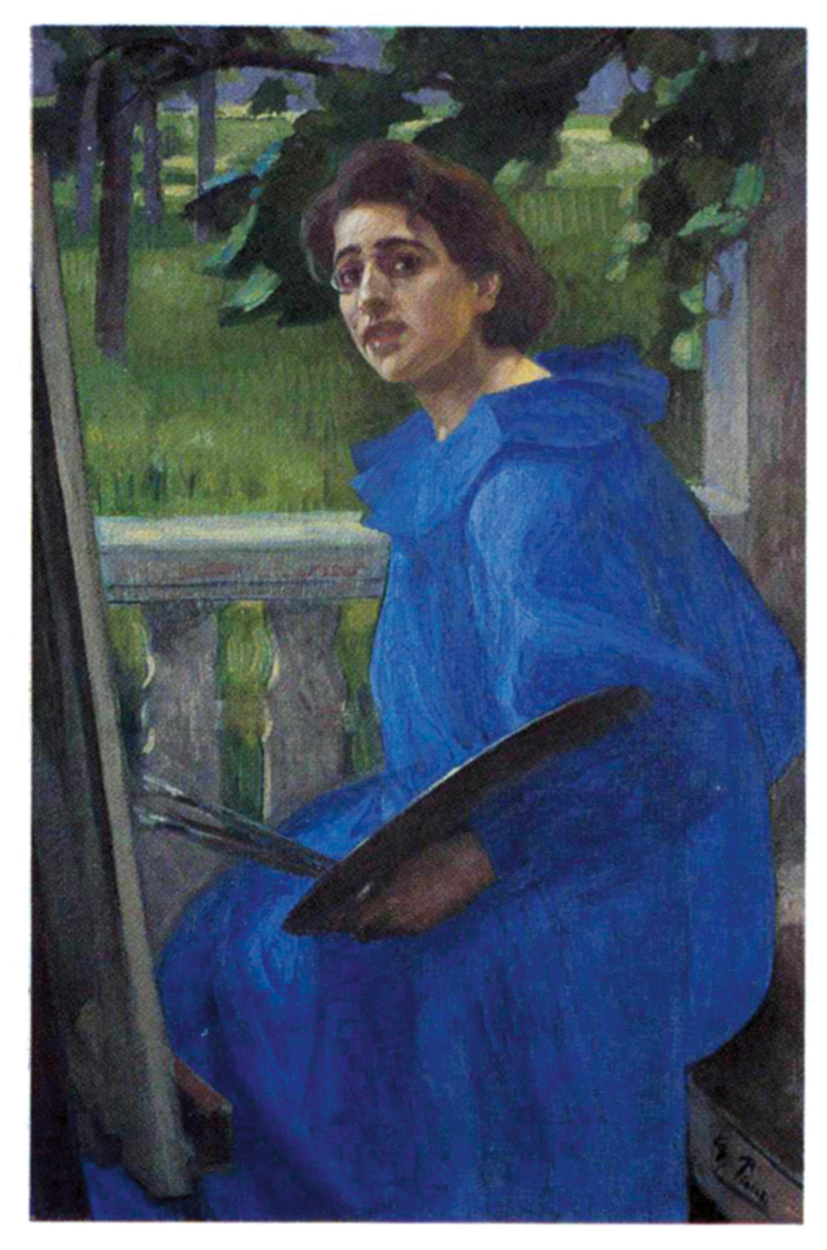 Portrait of the Swedish painter Hanna Pauli in a blue dress while painting by her husband Georg Pauli.